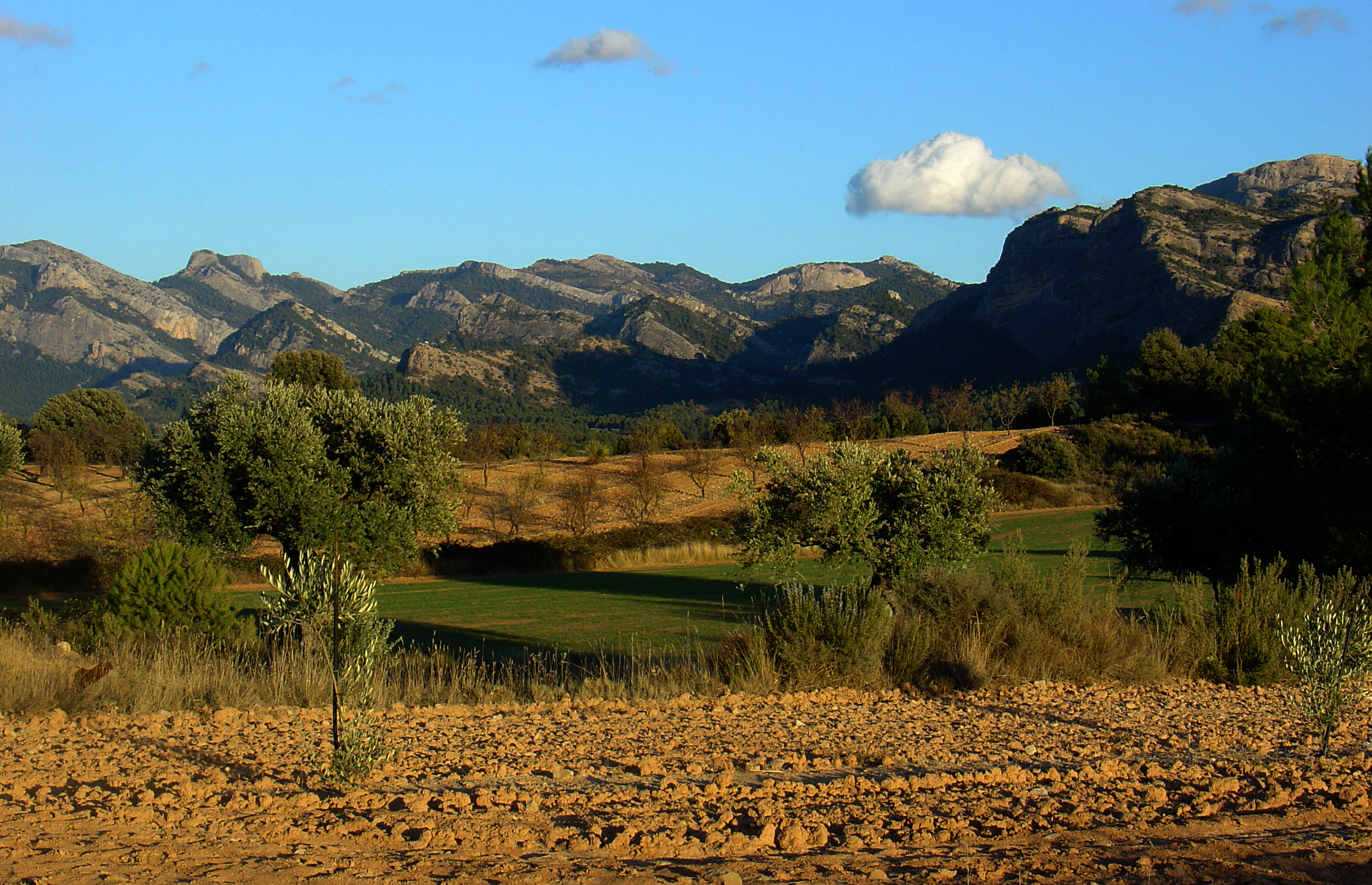 View of massif Ports de Tortosa-Beseit from the plains of Arnes, Catalonia This is a a photo of a natural area in Catalonia, Spain, with id: ES510154